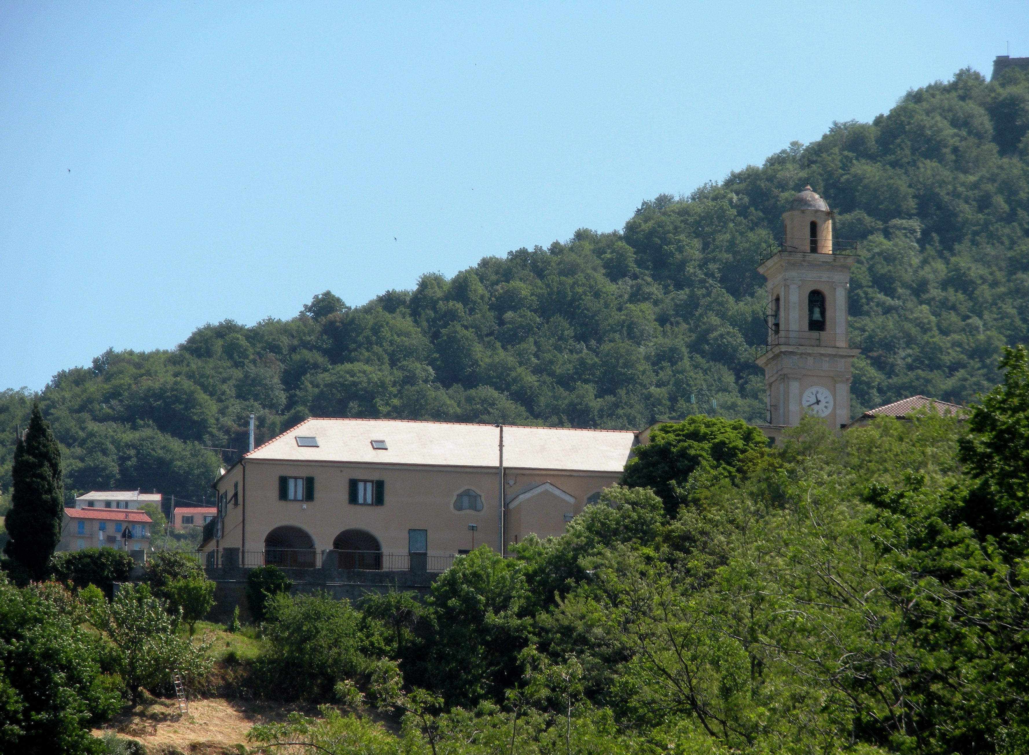 Genoa (Italy), quarter of Rivarolo, the church of St. Mary at Garbo